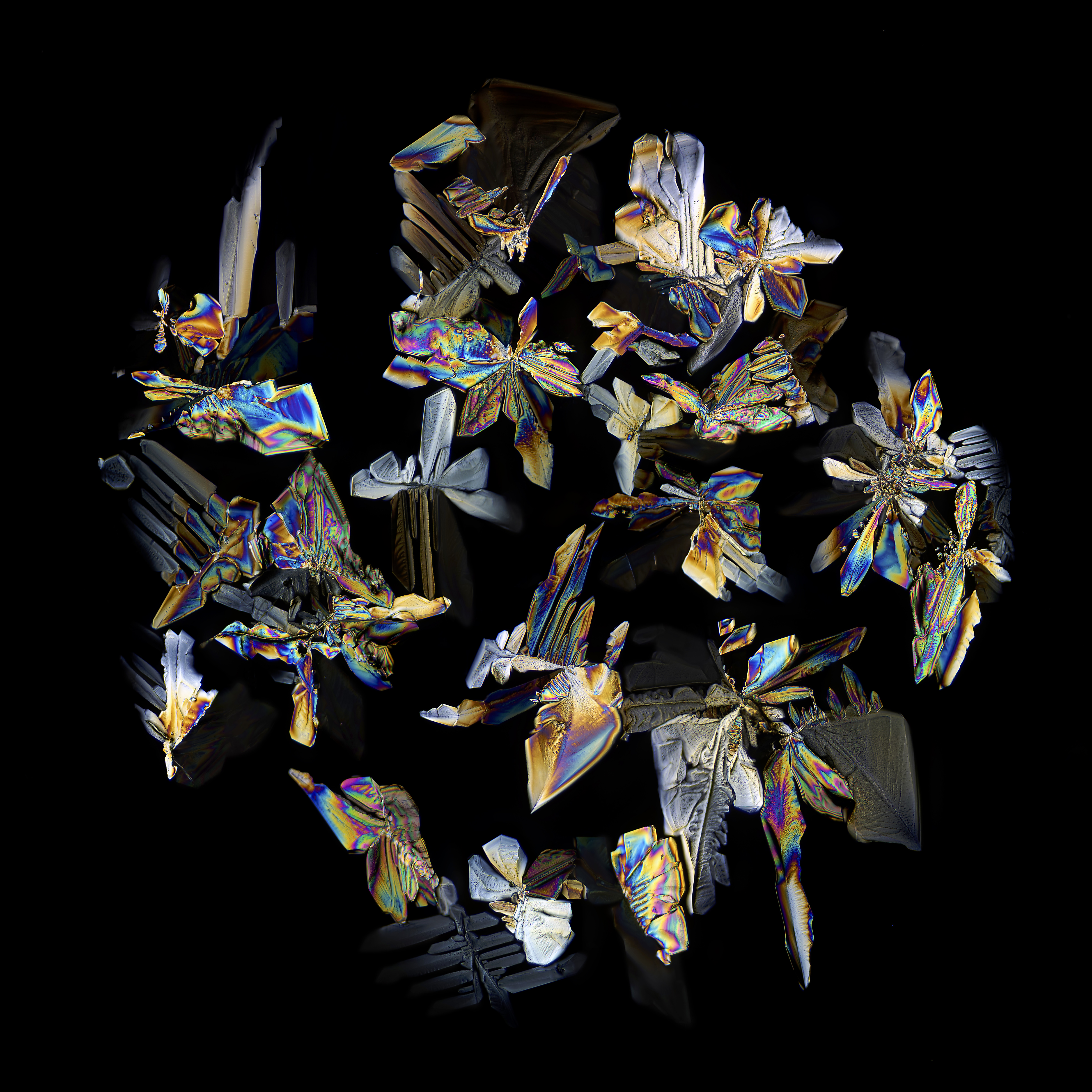 Crystals (mainly sugar) in a dried Coca Cola drop under a microscope. Polarization. Crossed polarizers.